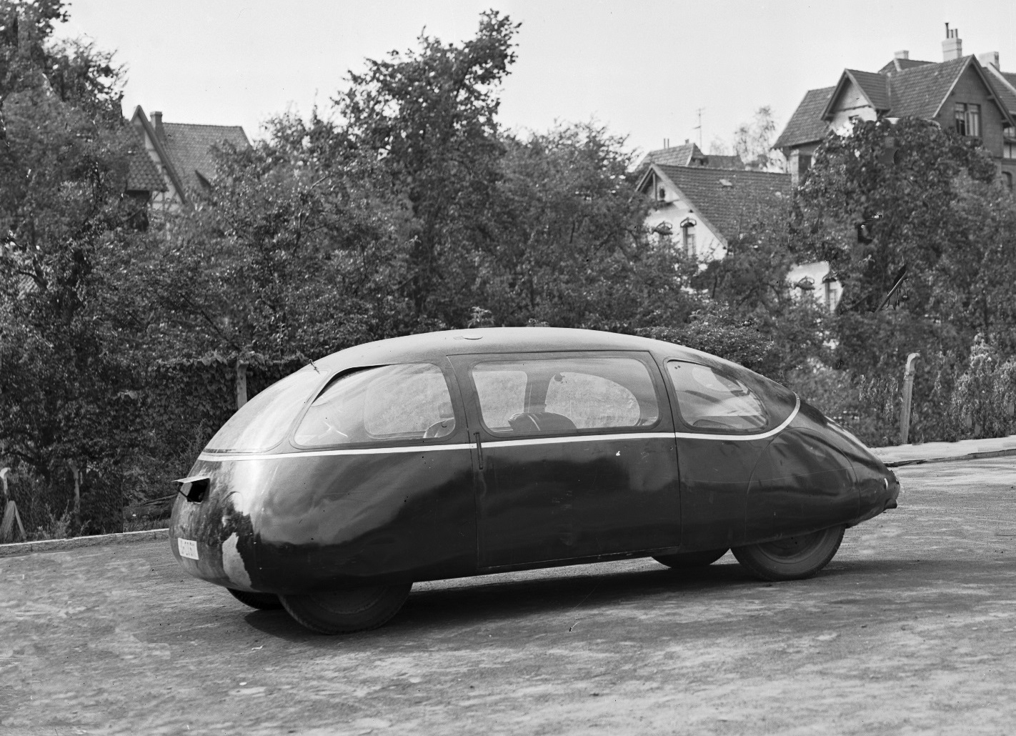 Karl Schlör's car without rear air-screw propulsion (with a Russian engine) that was installed in 1942. This air-screw and motor were removed here by image processing to present the original car in this interesting angle. Note that the body includes the front wheels, which greatly increases its width (and also decreases its Cx).